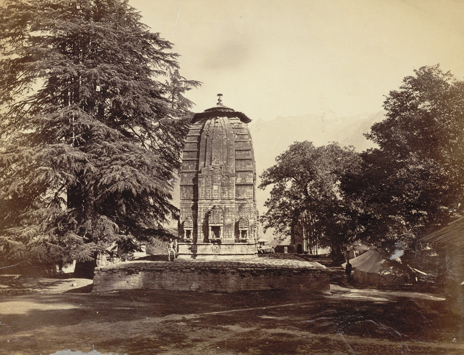 Manimaheshvara Temple, Brahmaur, Chamba